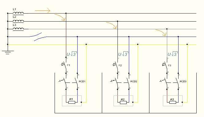 Nature of overvoltage in 3-phase system.